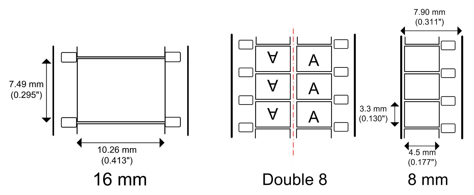 16 mm, Double 8 mm and 8 mm film formats side by side.